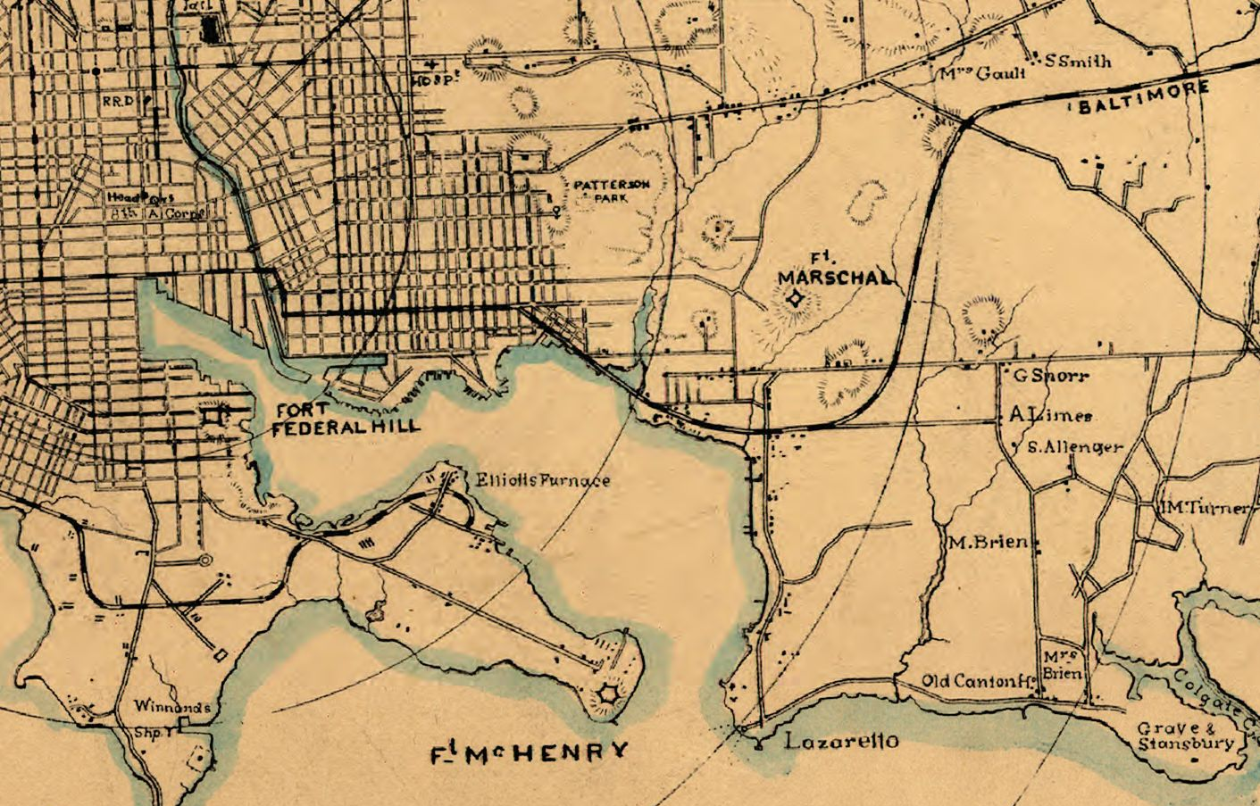 Scale 1:63,360. LC Civil War Maps (2nd ed.), 254.5 LC Land ownership maps, 285 At head of title: Middle Department and 8th Army Corps, Major Genl. R. C. Schenck Comgd. Stamped in right corner: Topographer, Post Office Department. "Library of Congress, Maps & Charts no. 4748." Detailed map indicating forts, camps, military hospitals, roads, toll gates, railroads, towns, mills, houses and names of residents. The names of a few towns are underscored in red or blue. Description derived from published bibliography. Available also through the Library of Congress web site as raster image.